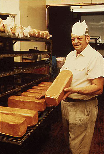 Baker Jim Tillman in New Ulm, Minnesota. Original caption: "HOMEMADE BREAD AND SWEET ROLLS ARE MADE DAILY BY JIM TILLMAN OF TILLMAN'S BAKERY. IT IS THE ONLY ONE REMAINING THAT CONCENTRATES ONLY ON BAKED GOODS. EACH NIGHT TILLMAN AND ONE ASSISTANT MAKE THE BREAD AND ROLLS THAT WILL BE BOUGHT BY RESIDENTS. TILLMAN'S MAKE THE TRADITIONAL GERMAN BREAD AND SWEET SUGARED AND GLAZED ROLLS. NEW ULM IS A COUNTRY SEAT TRADING CENTER IN SOUTHERN MINNESOTA FOUNDED BY GERMAN IMMIGRANTS , 10/1974"